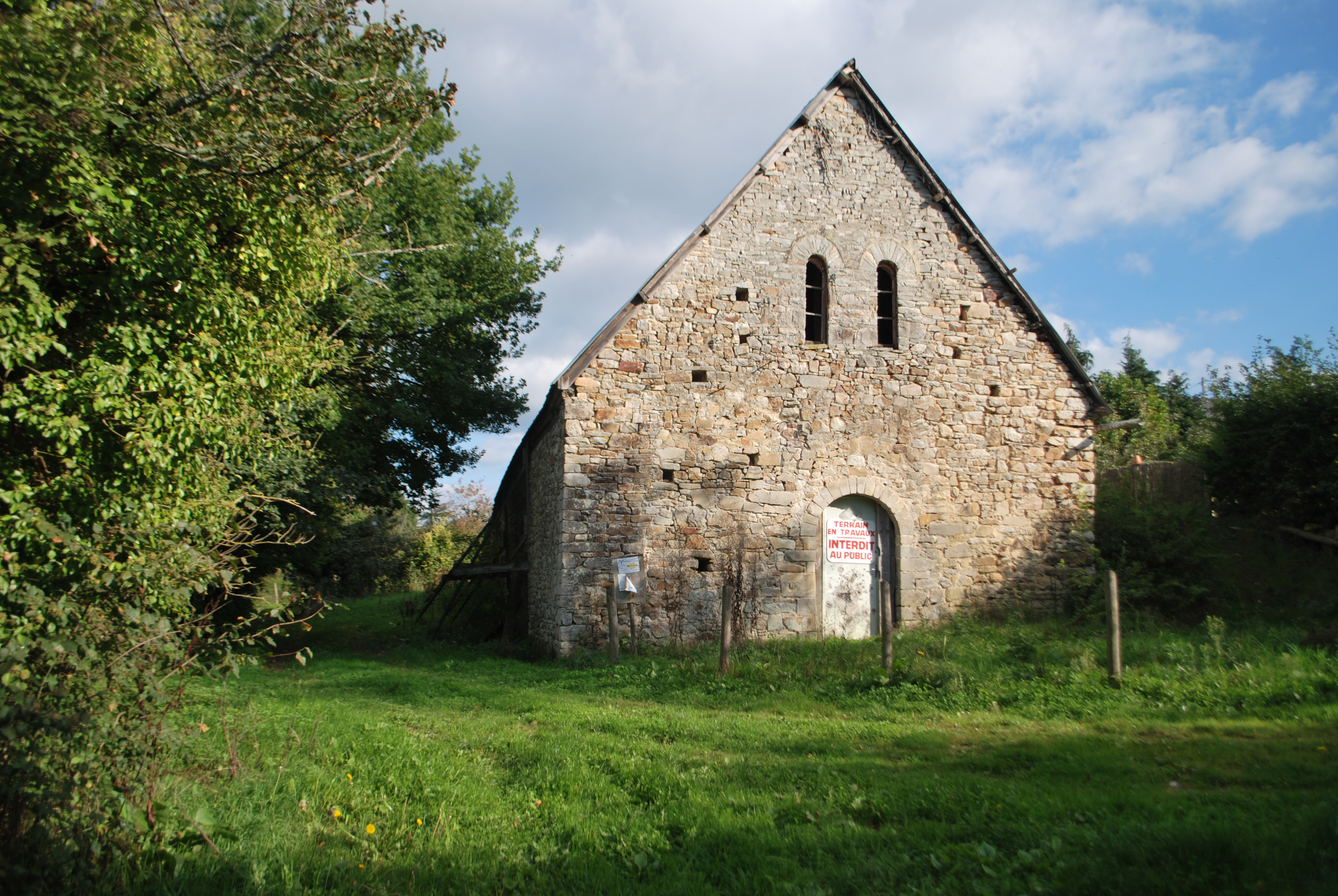 Chapel of Chevré in La Bouëxière, Brittany, France